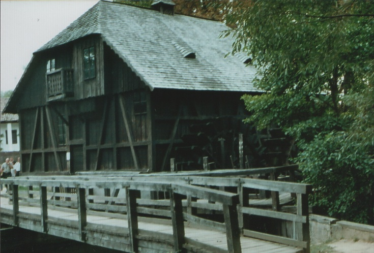 Watermill in Túristvándi in 2007. This is a photo of a monument in Hungary, Identifier: 8513